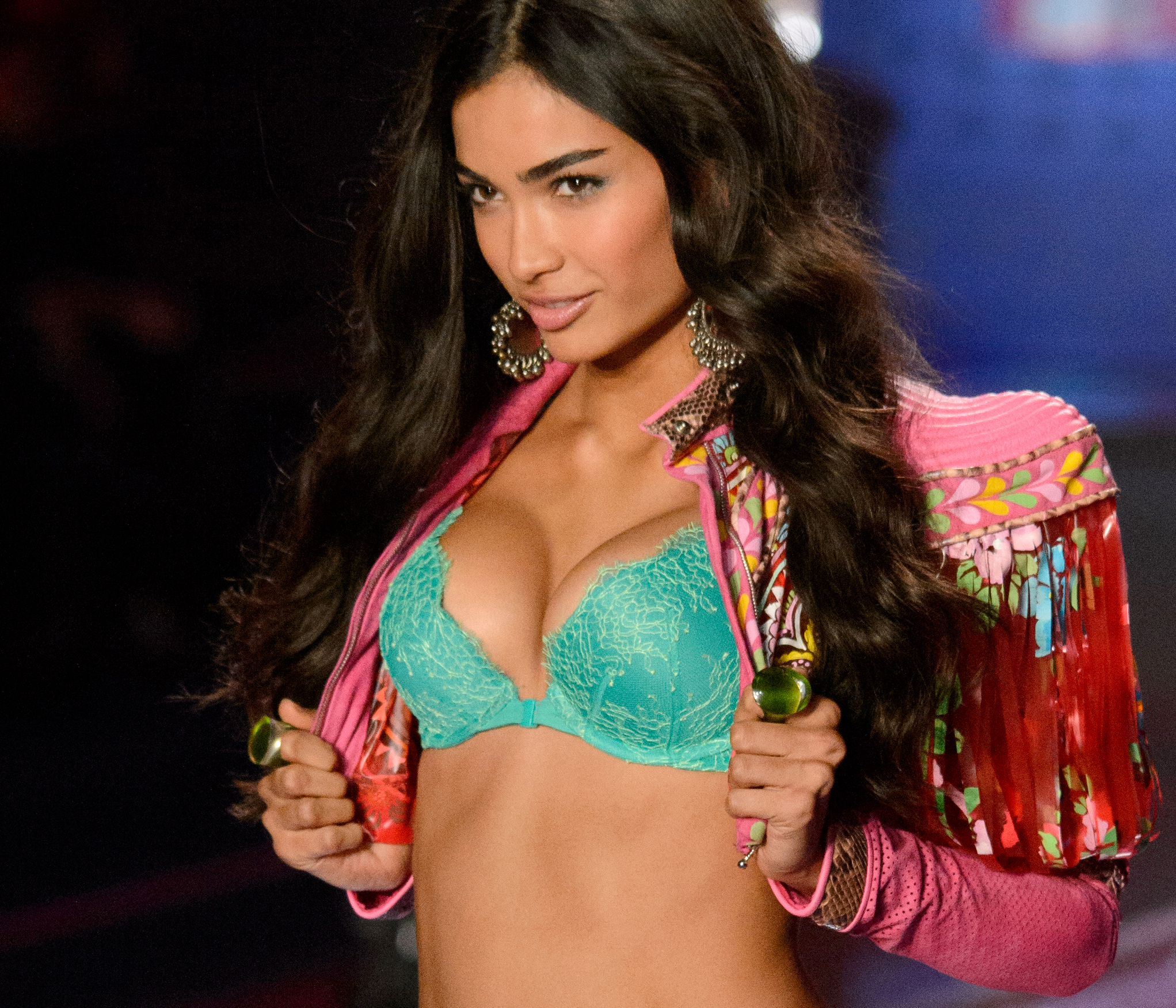 Kelly Gale models Victoria's Secret underwear while wearing traditional-styled Indian clothing (cropped)